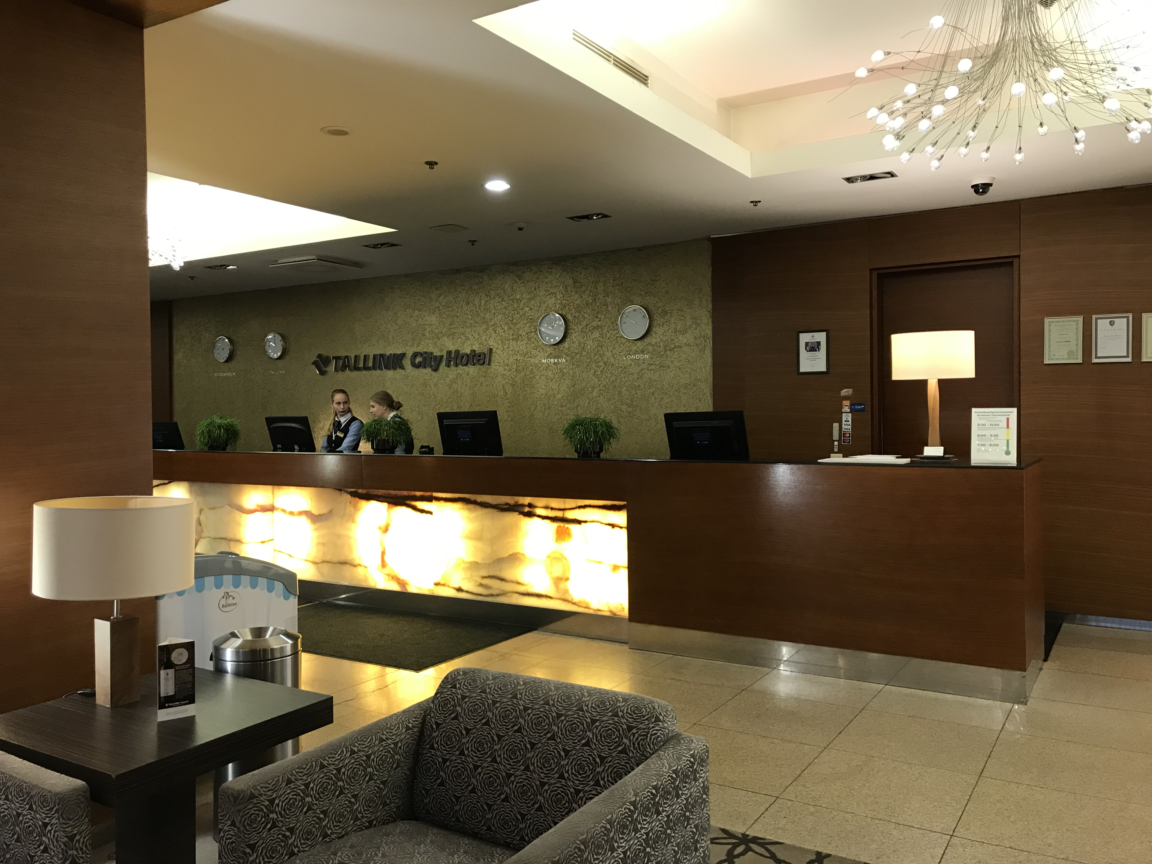 Tallink City Hotel, lobby. November 2019.